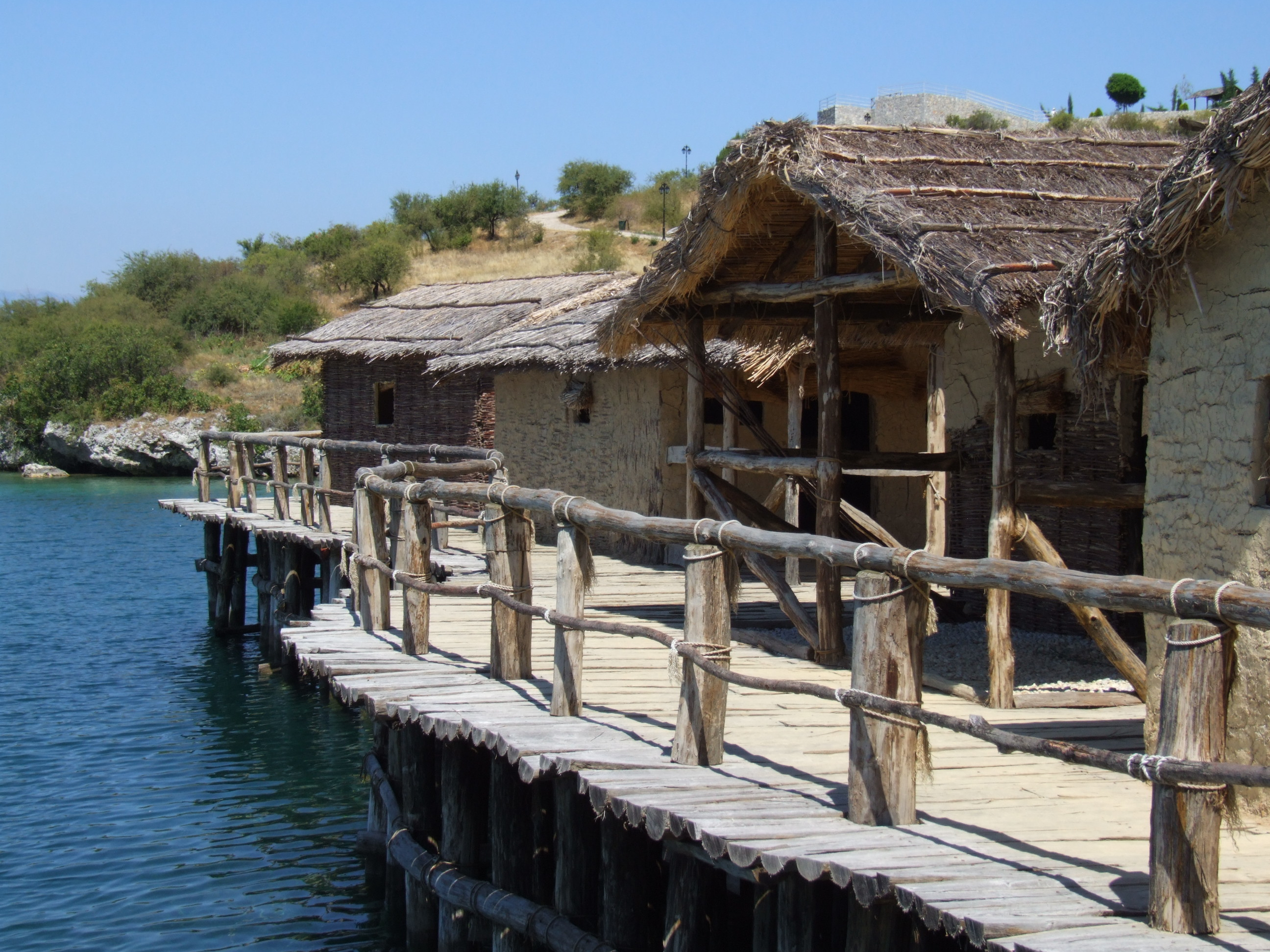 Museum on Water, Ohrid, Macedonia